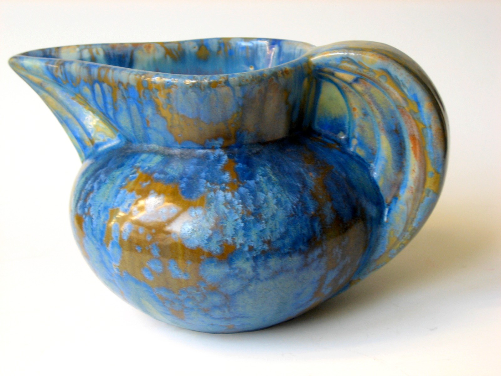 Stoneware from Pierrefonds, France, circa 1930